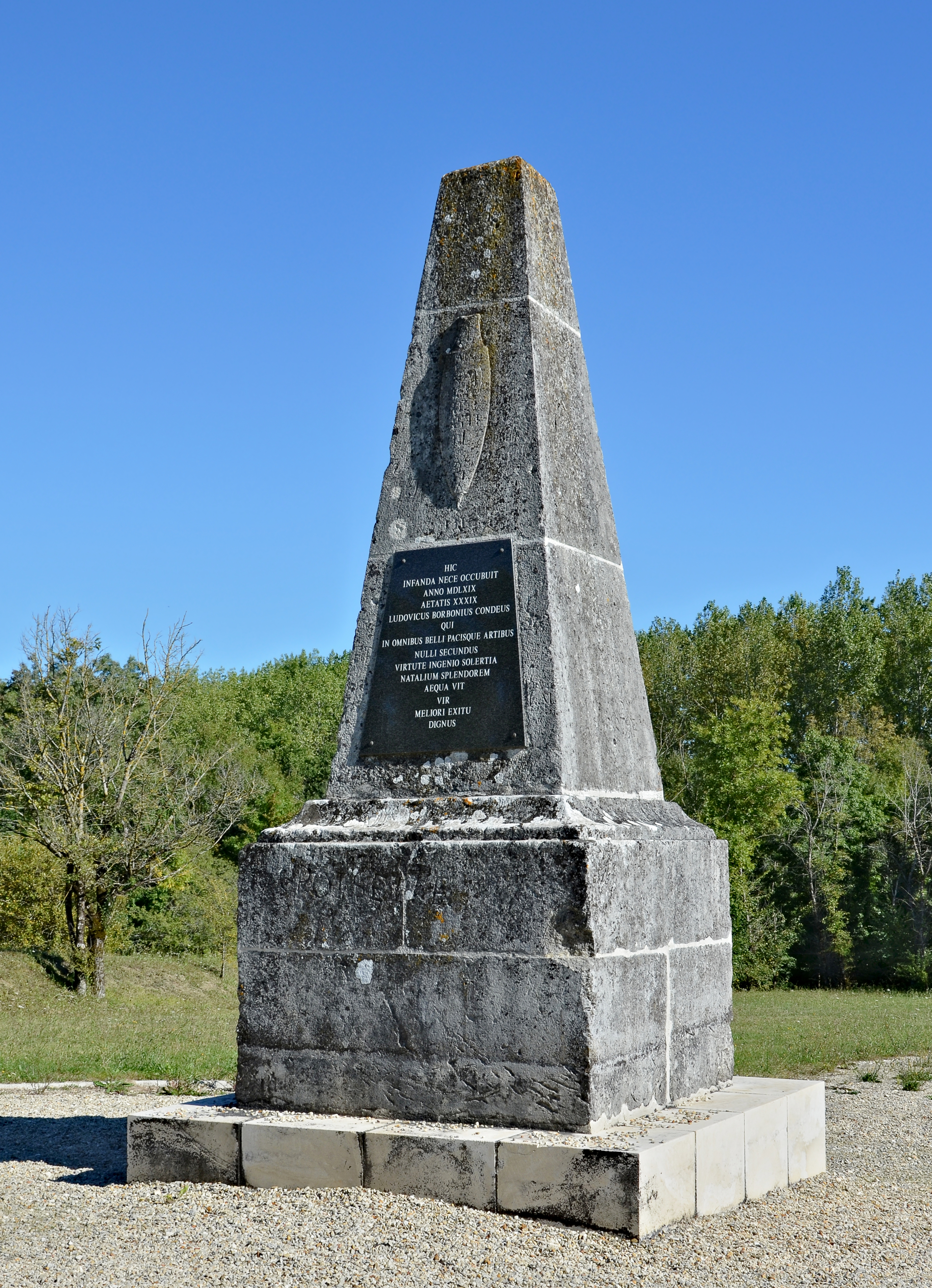 "Pyramide de Condé" (end of 18th-beginning of 19th century) built on the spot where Louis de Bourbon, Prince de condé, died during the battle of Jarnac (1569). Triac-Lautrait, Charente, France. .